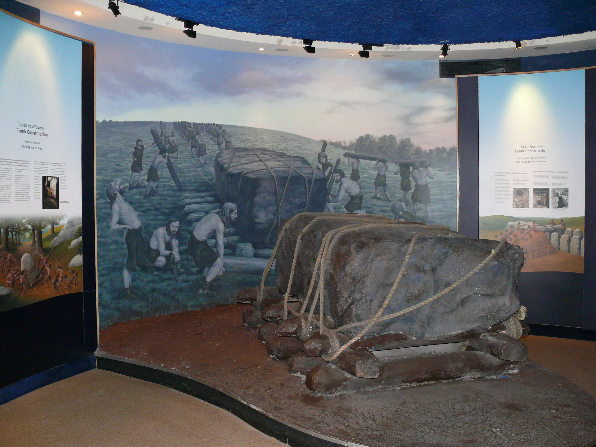 Display illustrating alleged means of building used in Newgrange by its creators (Visitor Center, Newgrange).